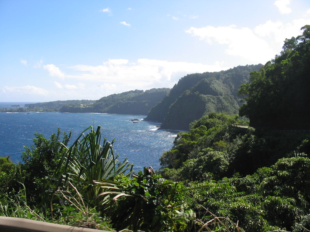 Coast of Maui, Hawaii.